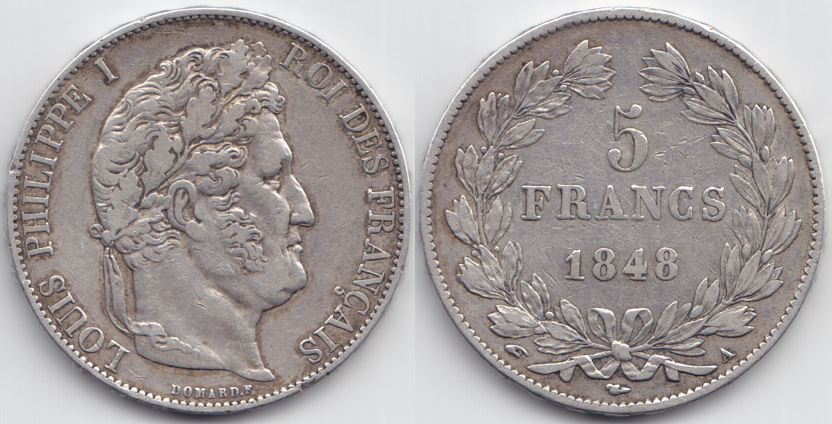 France, coin 5 Francs, 1848 - Louis Philippe I. Silver 900. Diameter 37.3 mm, thickness 2.6 mm, weight 24.85 g. It was struck in Paris. Grever Joseph-François Domard. There is a convex inscription on the edge: "DIEU PROTEGE LA FRANCE ***".